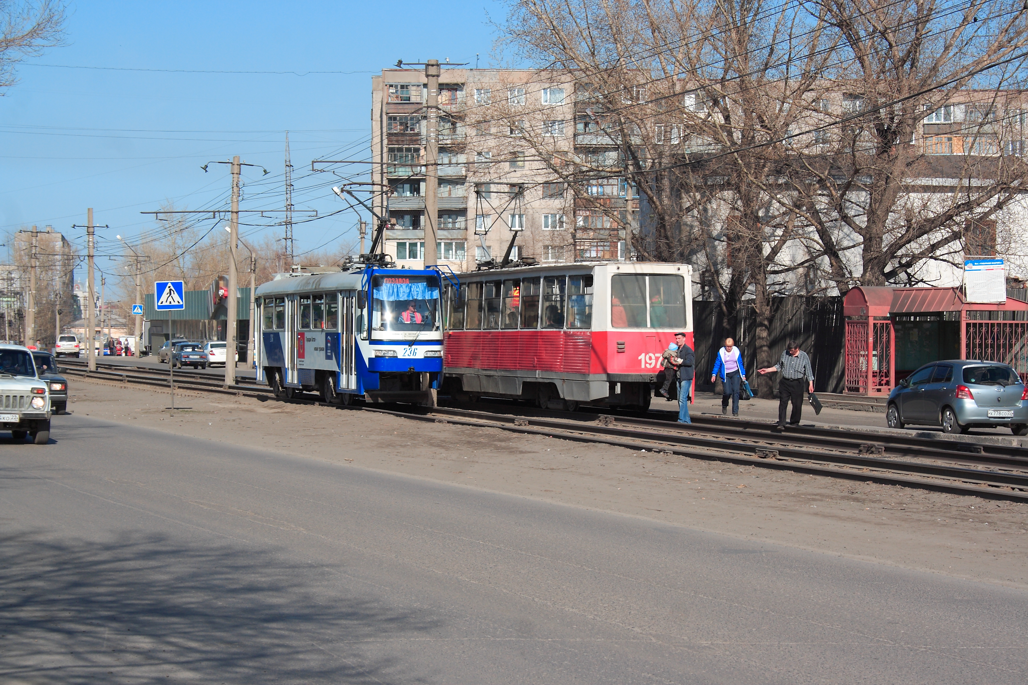 Trams in Biysk